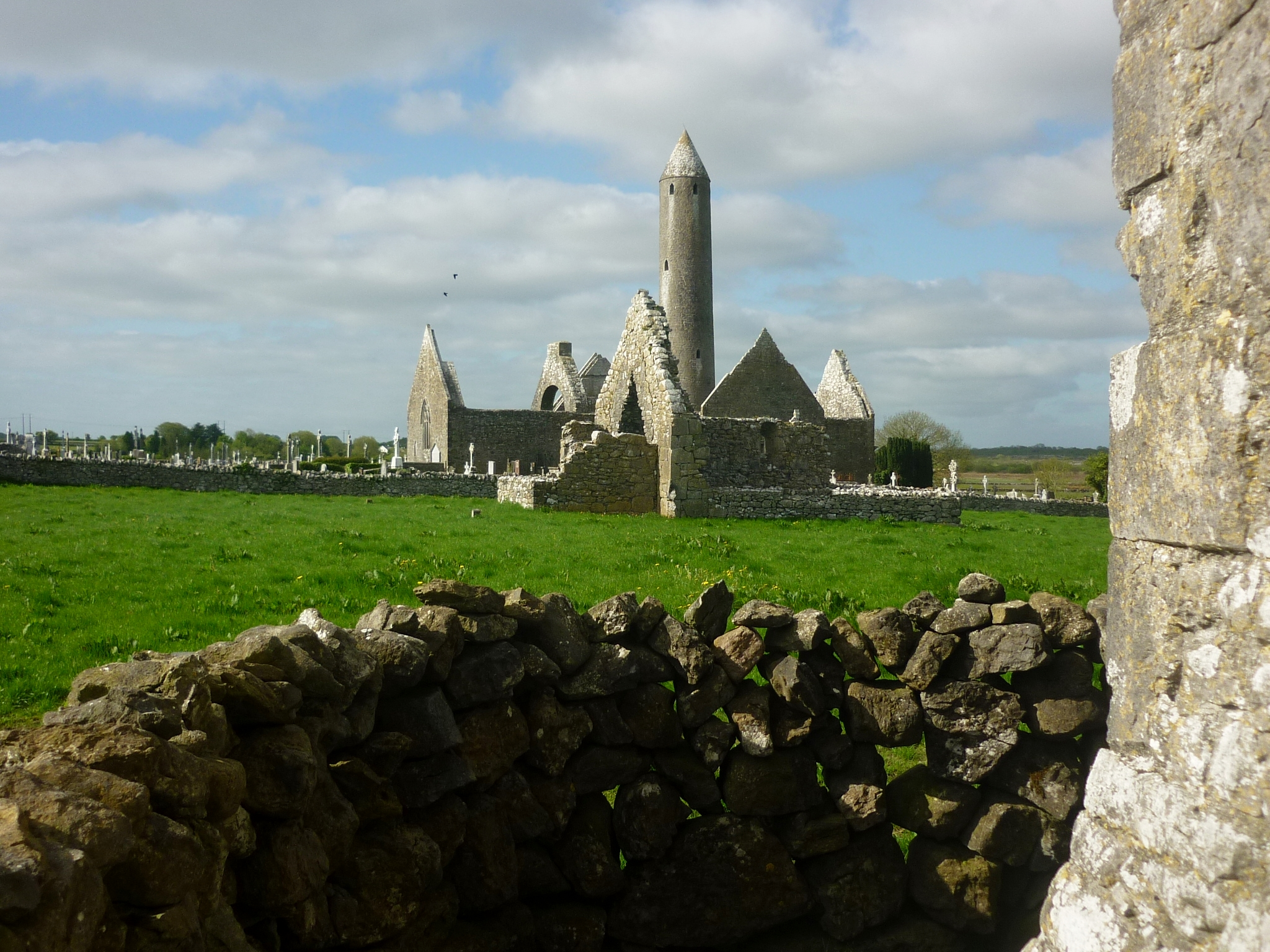 Kilmacduagh Cathedral with St. John the Baptist's Church in the foreground. The photograph has been taken from the site of the glebe house.